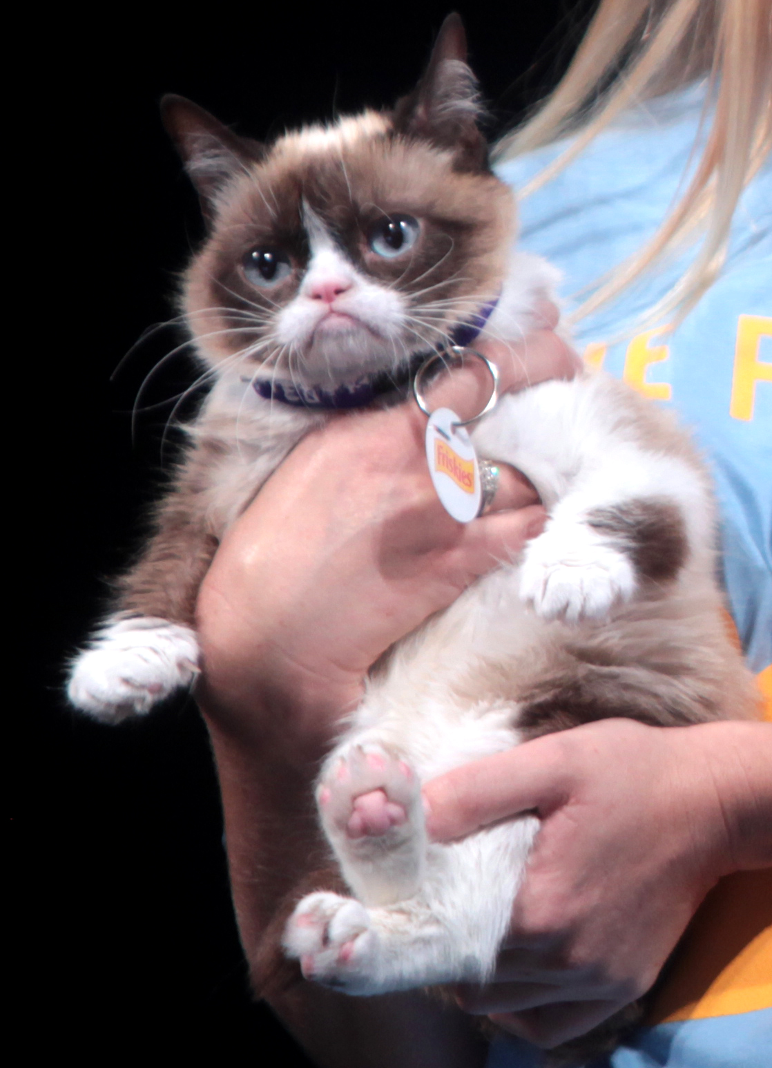 Grumpy Cat and Rafi Fine at the 2014 VidCon at the Anaheim Convention Center in Anaheim, California.